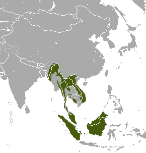 Small-toothed Palm Civet (Arctogalidia trivirgata) range